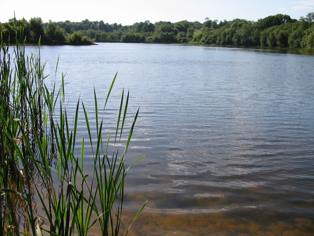 Ponds formed by the careers of Kaolin